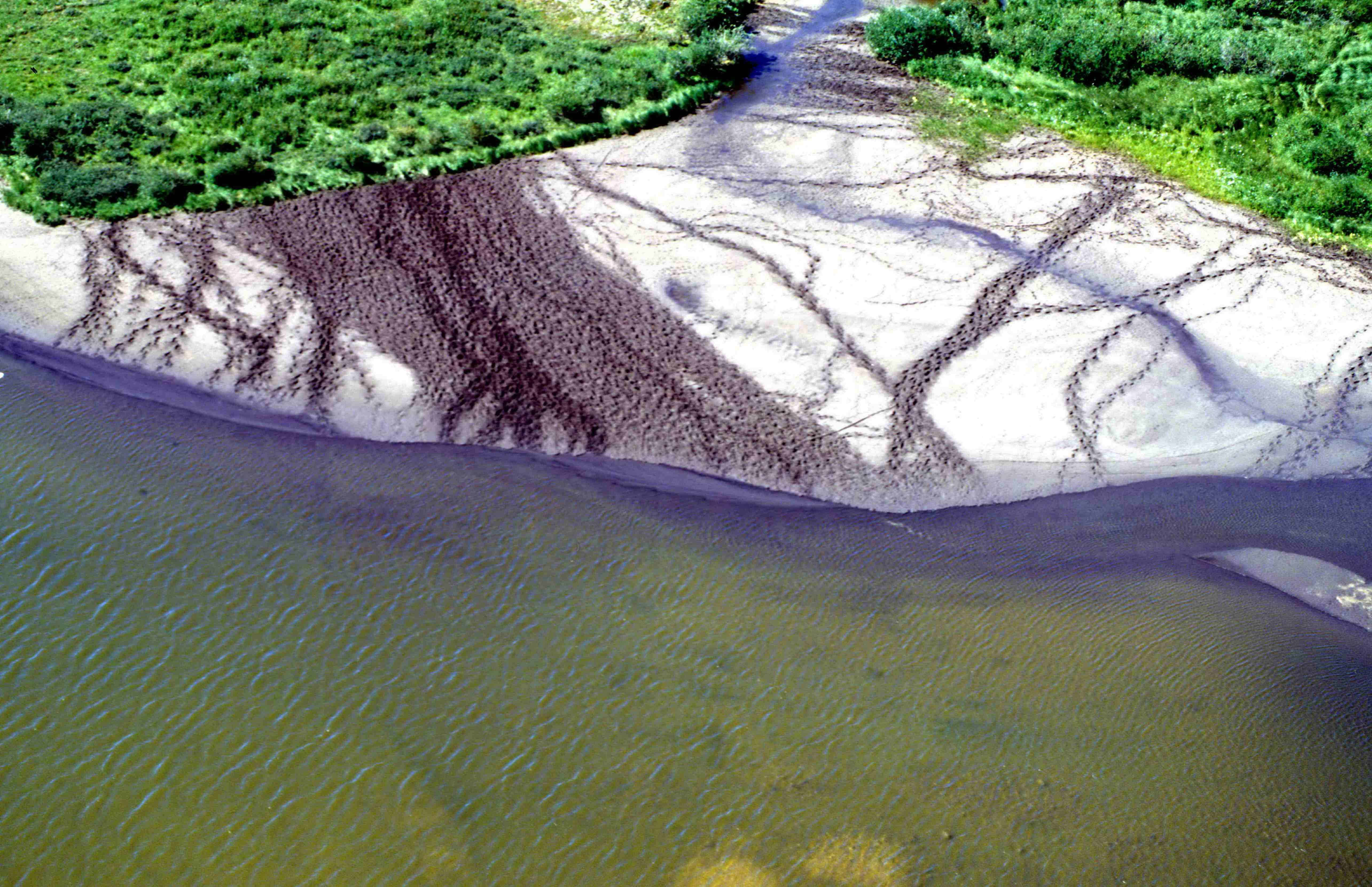 Caribou tracks (Wapusk National Park, Manitoba, Canada)